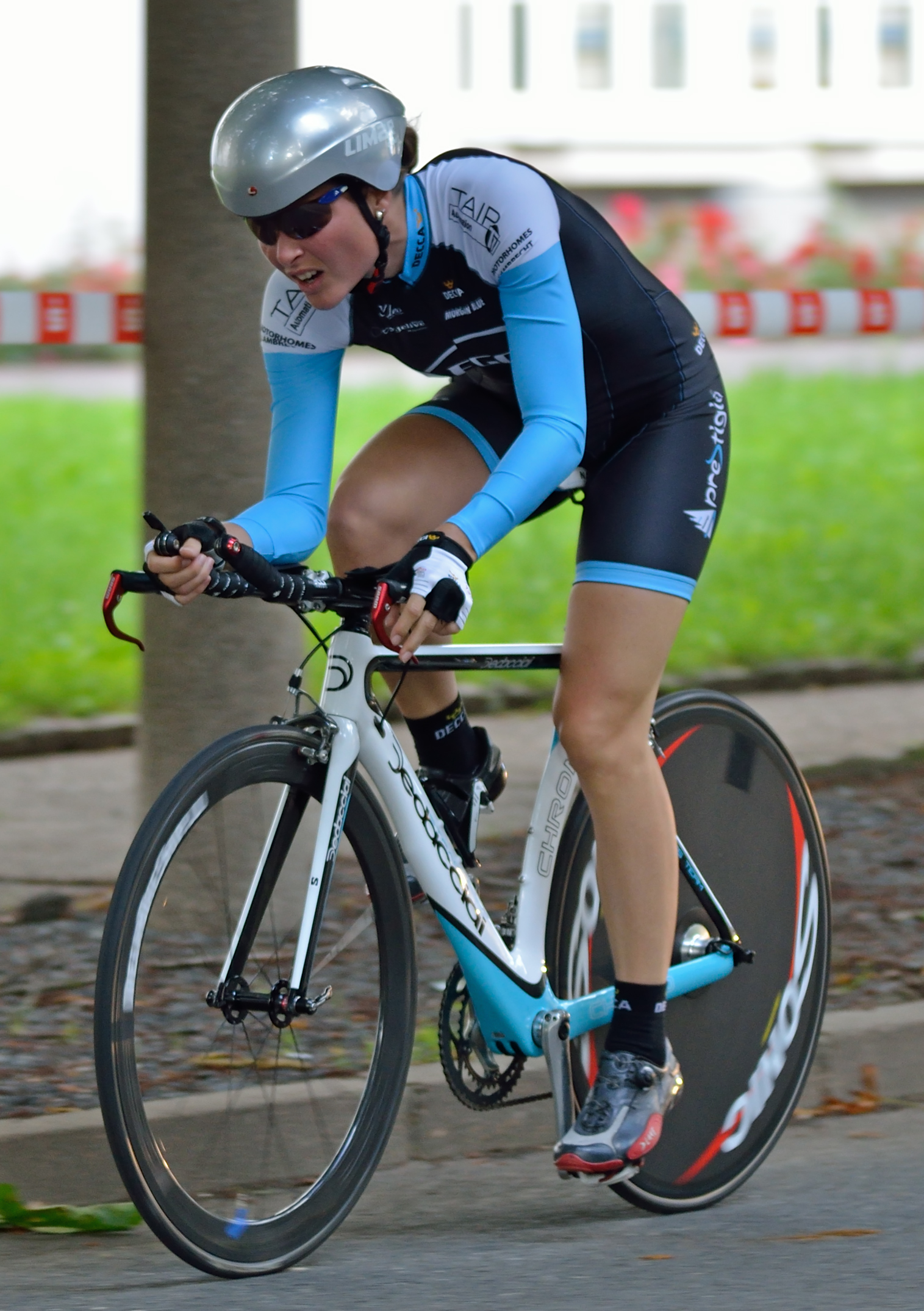 Nathalie Lamborelle from the Kleo Ladies Team during the Women's Tour of Thuringia 2012 in Zwickau, Germany.